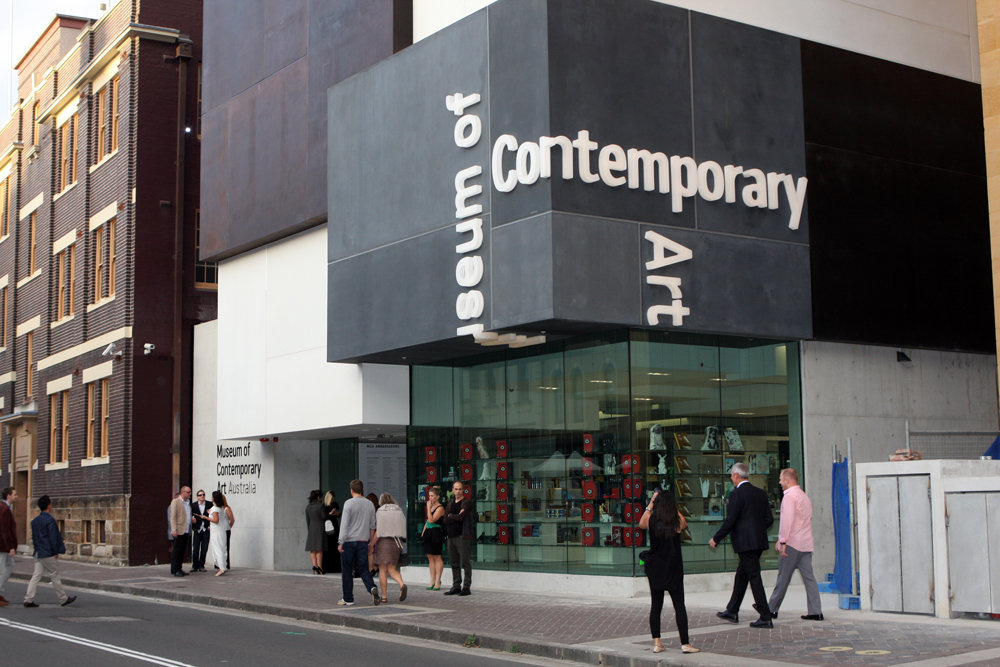 Museum of Contemporary Art Australia